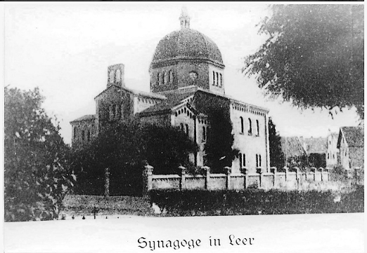 Synagogue of Leer built in 1885 and destroyed by the nazis during the Kristal nacht (1938)